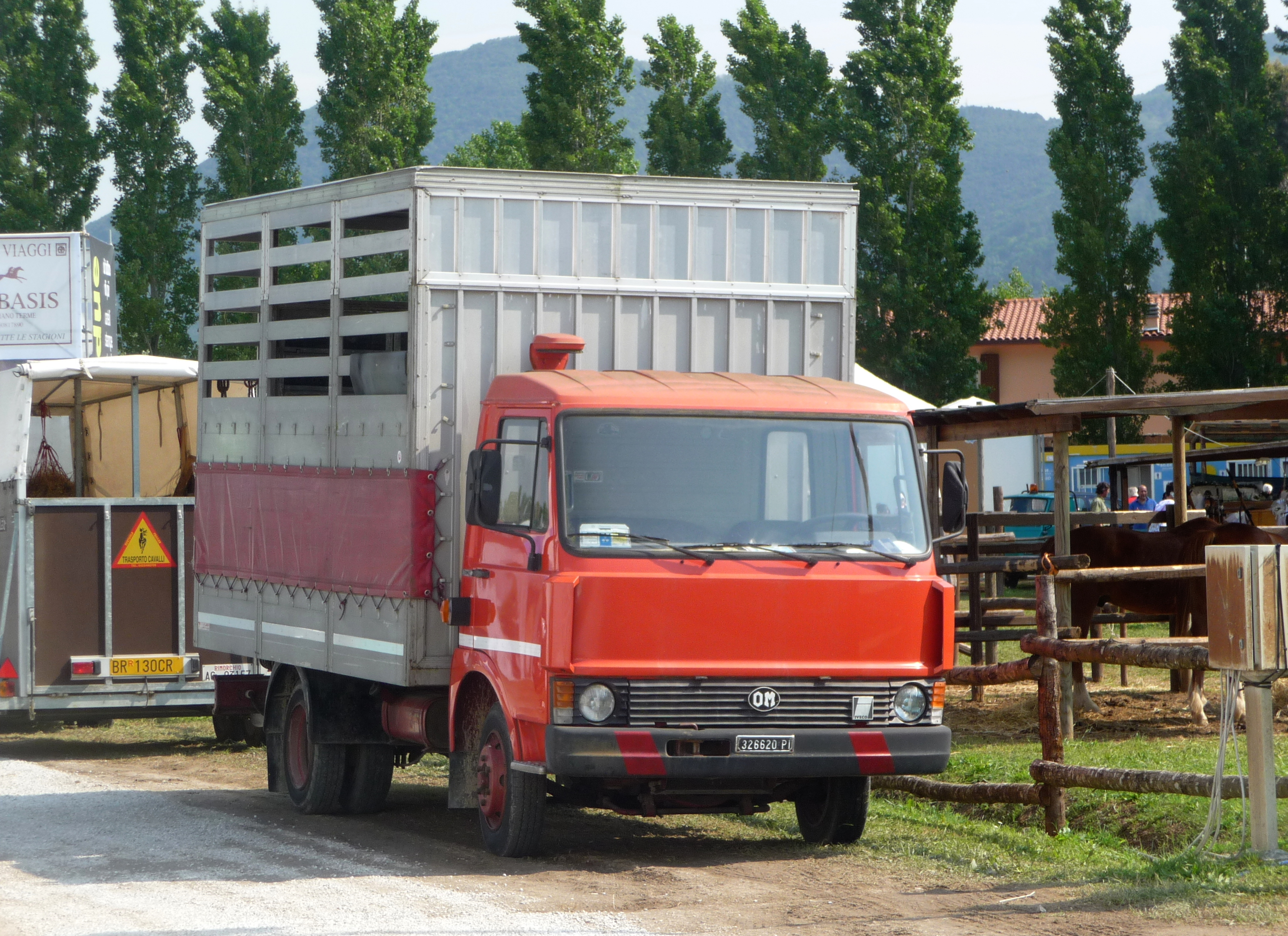 OM truck.